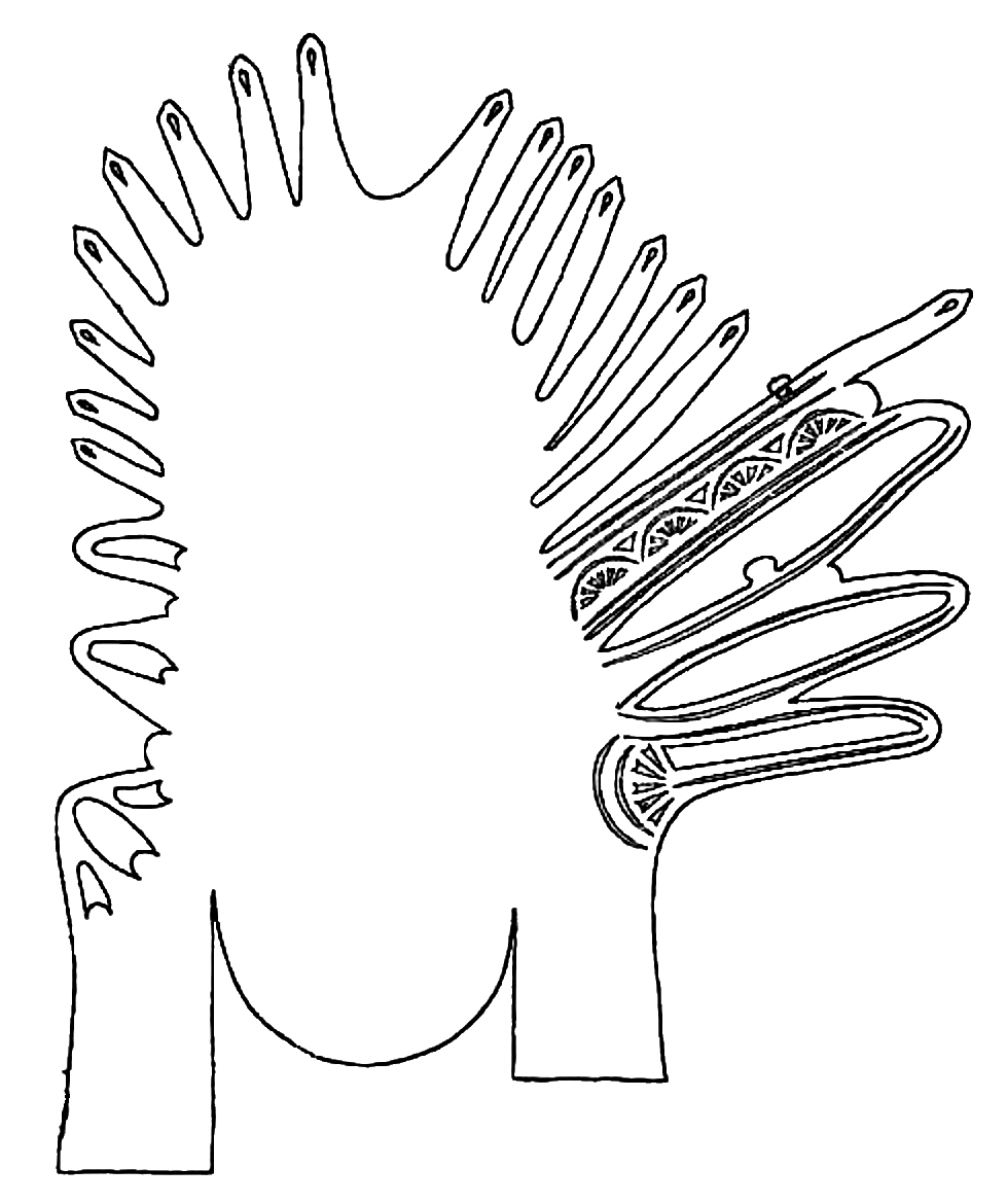 Pattern of the left shoe of iron aged bog body Mann von Obenaltendorf found in 1895